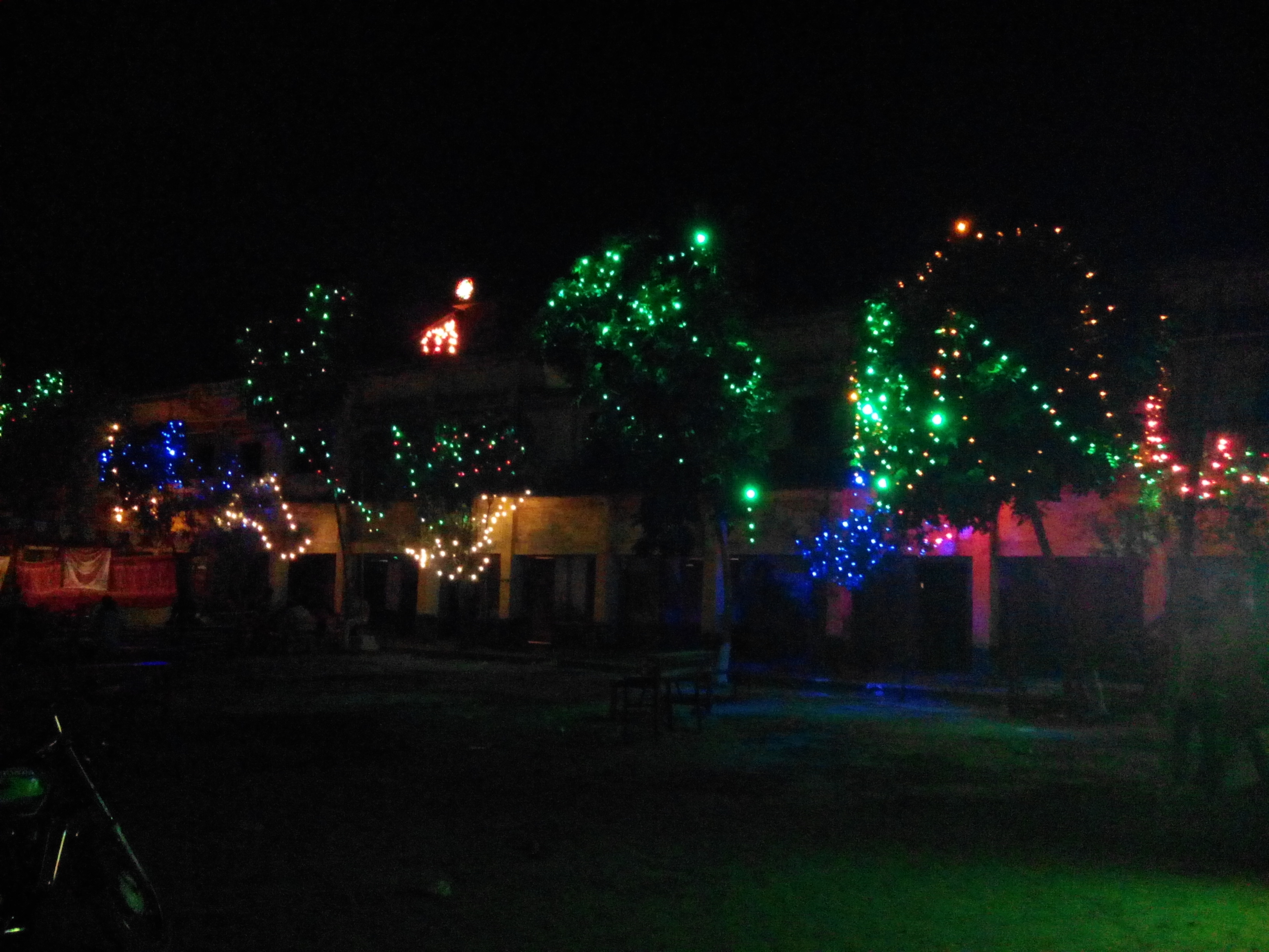 light